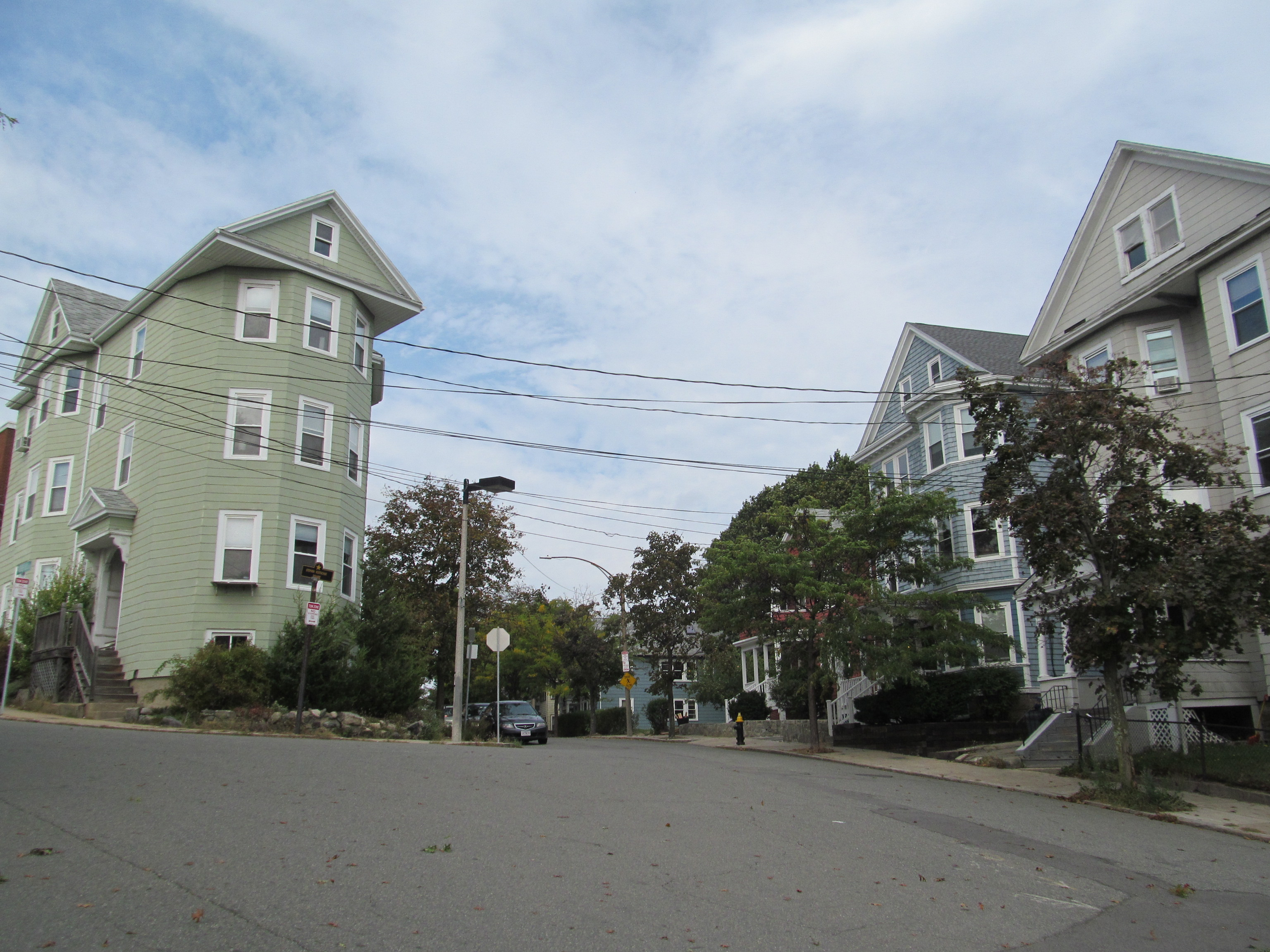 Calumet Street, Mission Hill, Boston Massachusetts